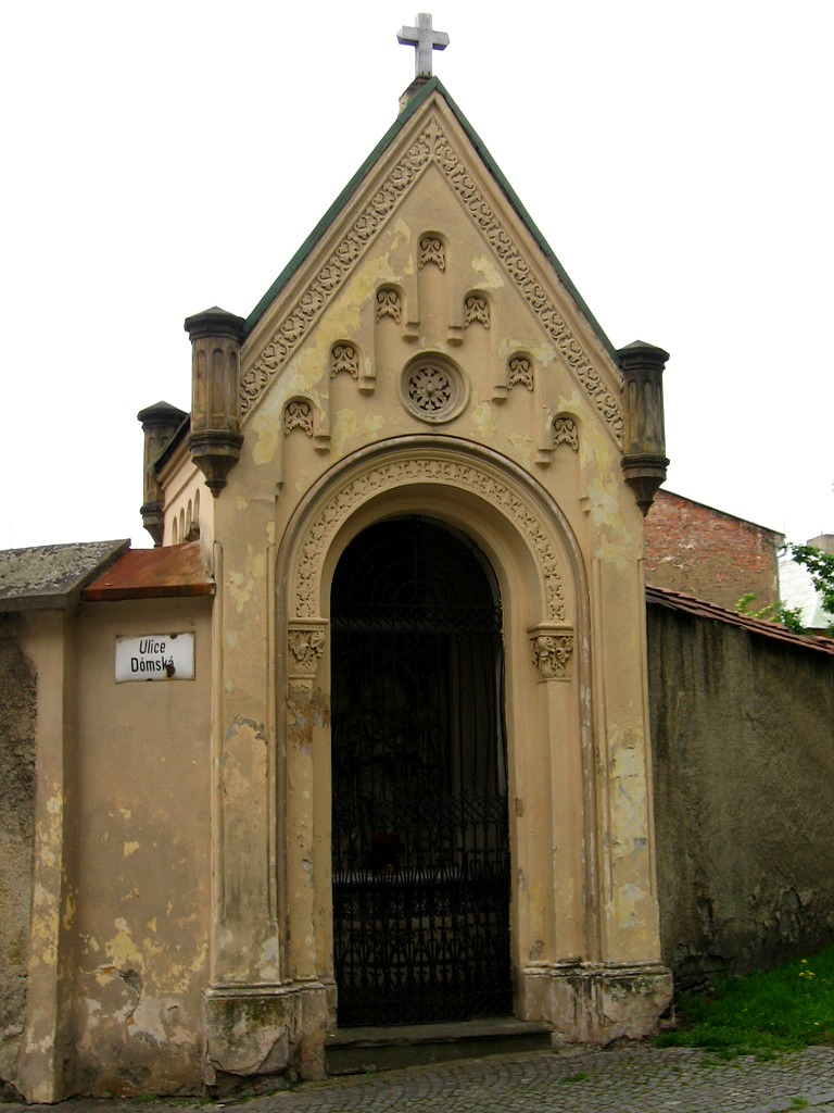 Saint Mary´s Chapel in Olomouc, The Czech Republic